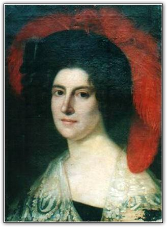 Lucia Migliaccio, duchess of Floridia and morganatic wife of king Ferdinand I of the Two Sicilies